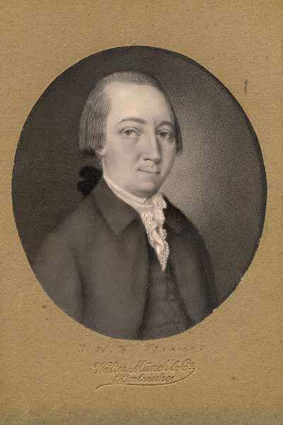 Johann Nikolaus Friedrich Brauer (1754-1813), high-ranking civil servant from the German principality of Baden